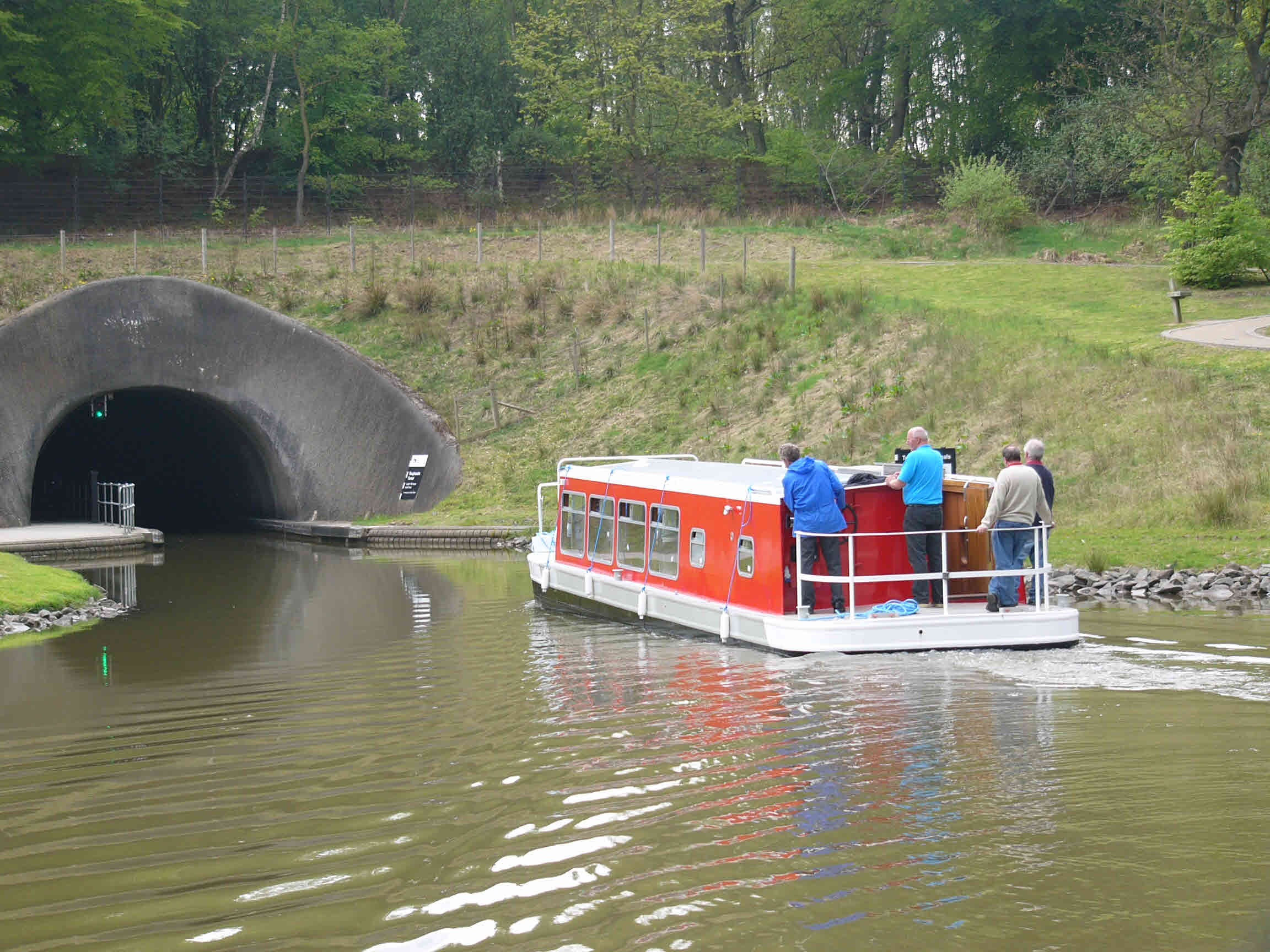 Barr Seagull on Union Canal at Falkirk viaduct